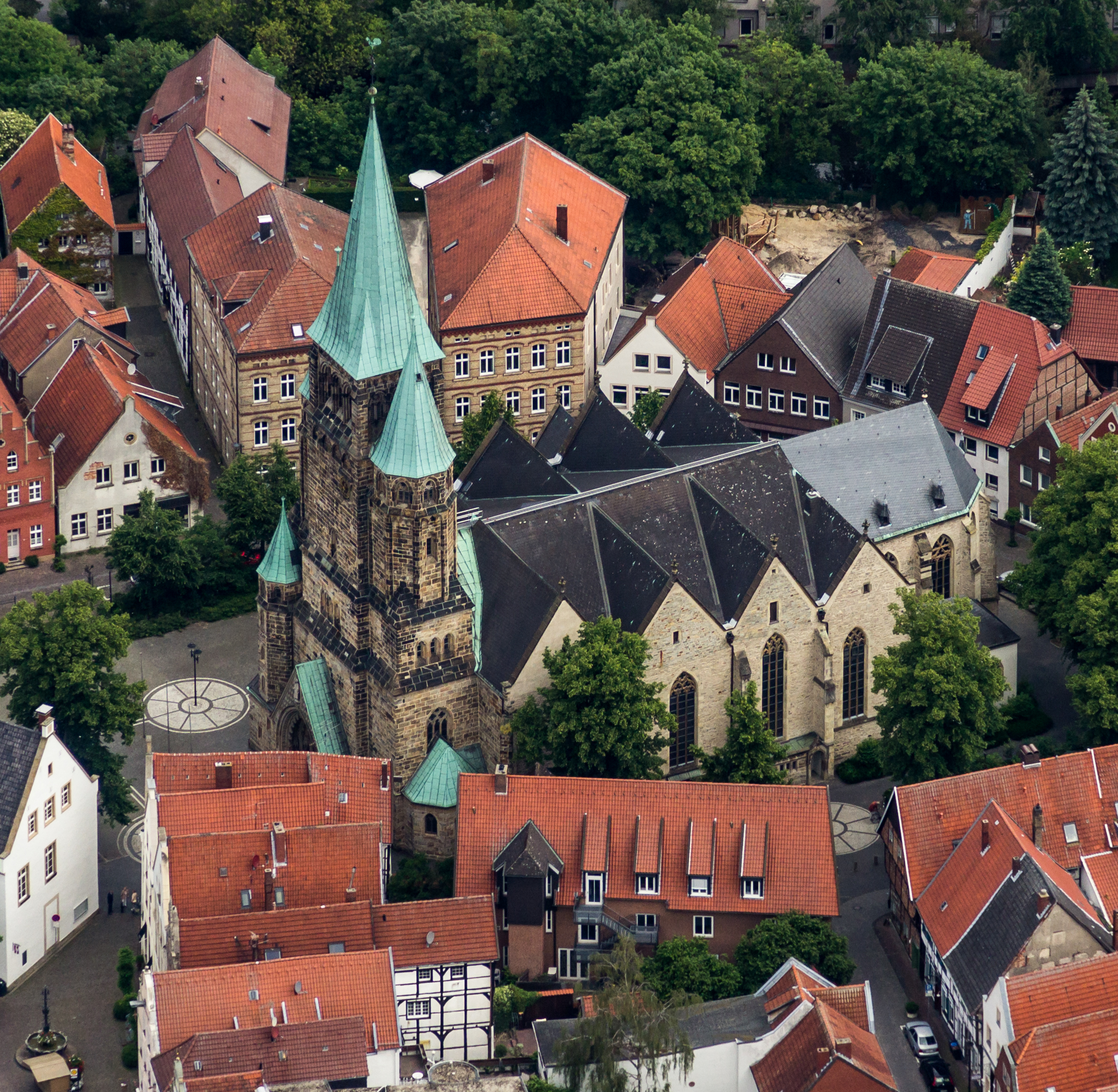 St. Lawrence Church, Warendorf, North Rhine-Westphalia, Germany This image shows a heritage building in Germany, located in the North Rhine-Westphalian city Warendorf (no. 384).